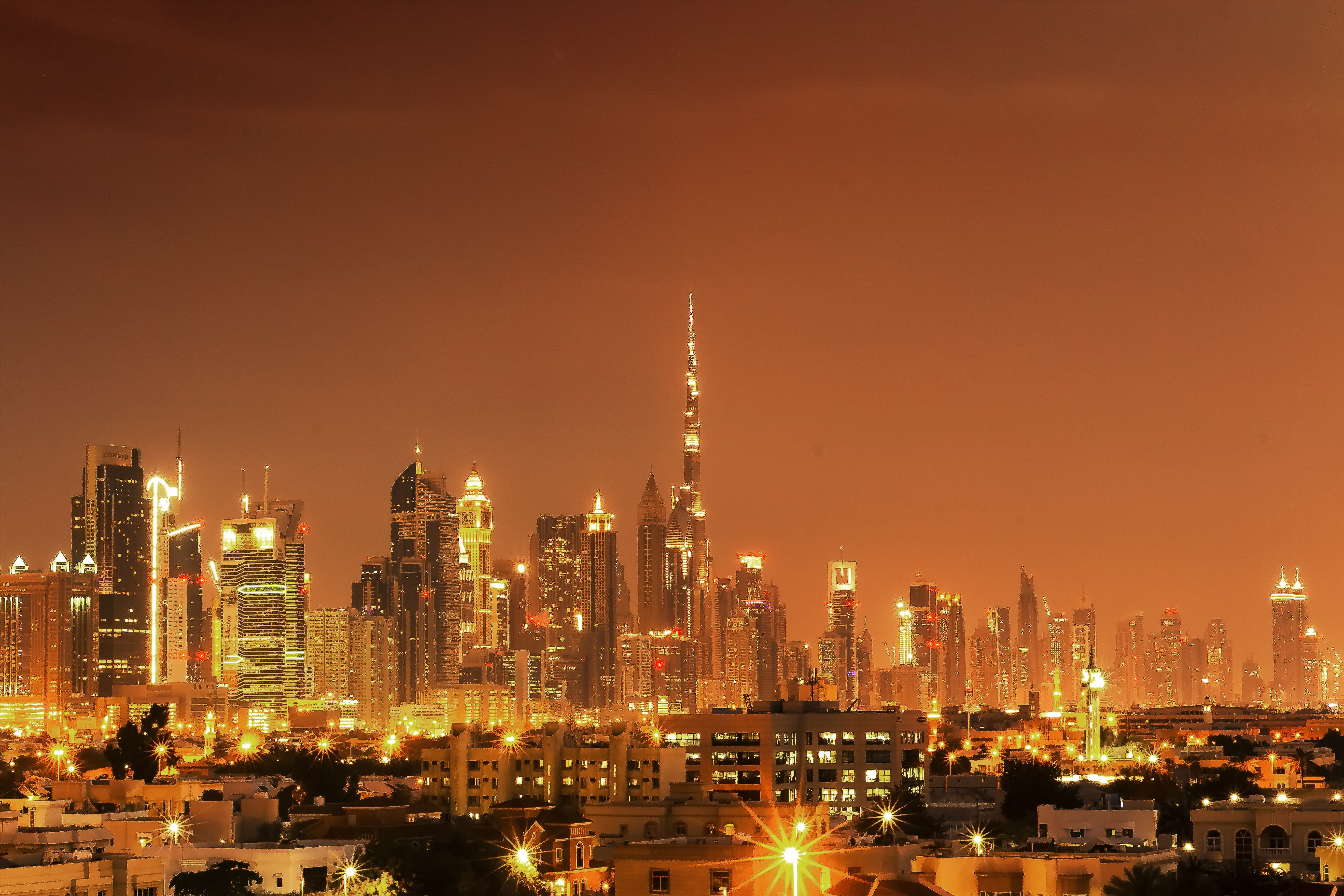 Dubai (/duːˈbaɪ/ doo-by; Arabic: دبي Dubayy, Gulf pronunciation: [dʊˈbɑj]) is the most populous city in the United Arab Emirates (UAE). It is located on the southeast coast of the Persian Gulf and is one of the seven emirates that make up the country. Abu Dhabi and Dubai are the only two emirates to have veto power over critical matters of national importance in the country's legislature. The city of Dubai is located on the emirate's northern coastline and heads up the Dubai-Sharjah-Ajman metropolitan area. Dubai is to host World Expo 2020. ( Source : Wiki )